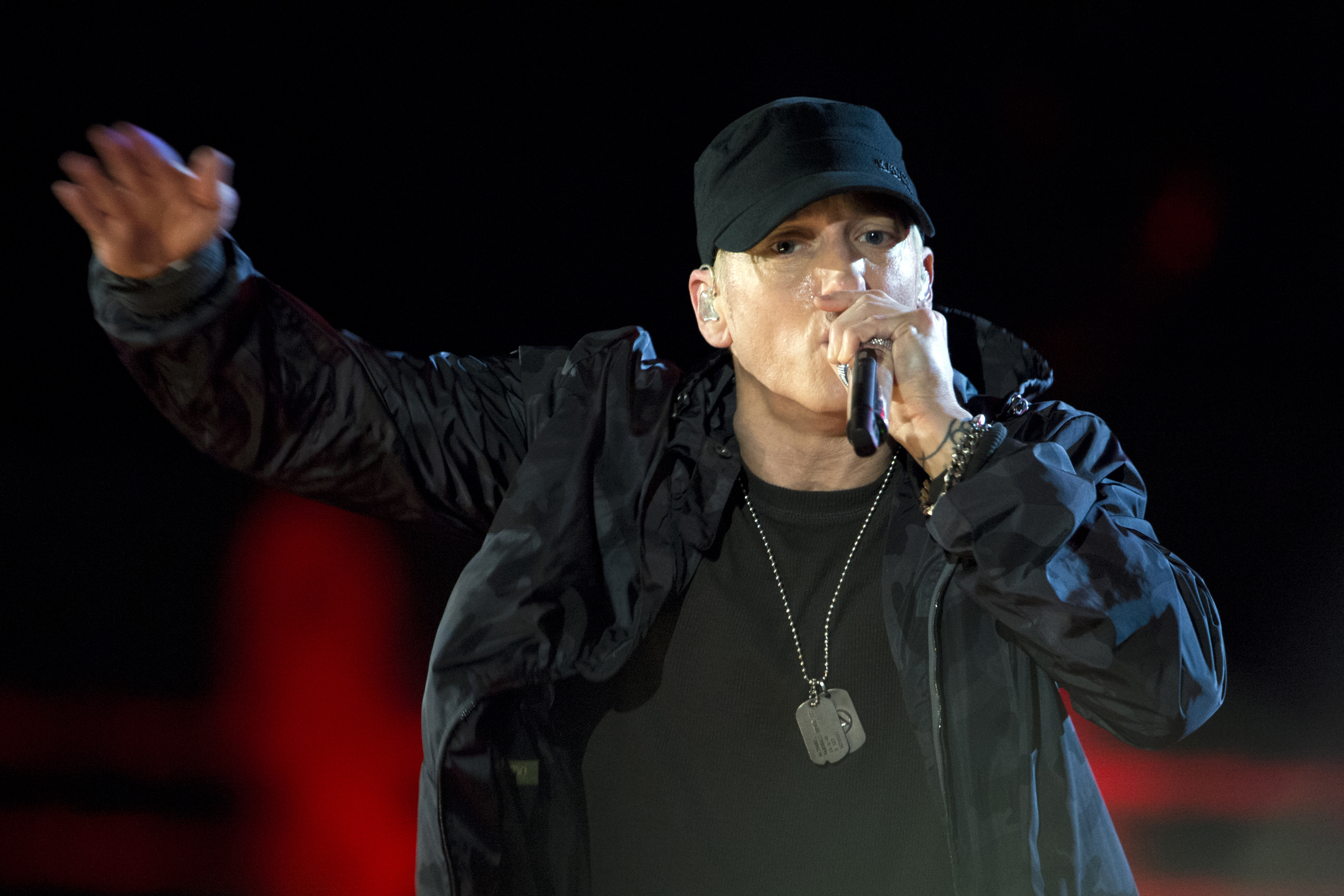 Eminem performs during The Concert for Valor in Washington, D.C. Nov. 11, 2014. DoD News photo by EJ Hersom